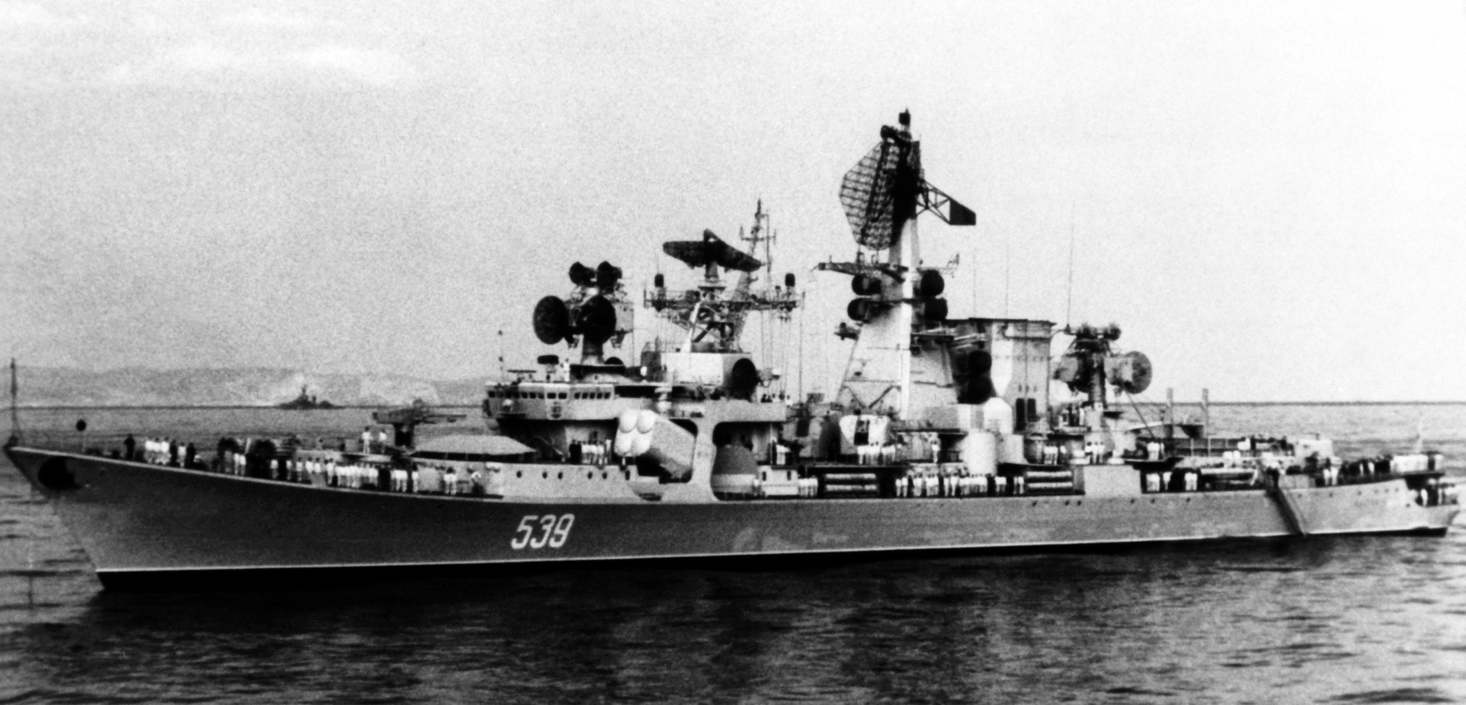 A port beam view of an anchored Soviet Kara class cruiser.